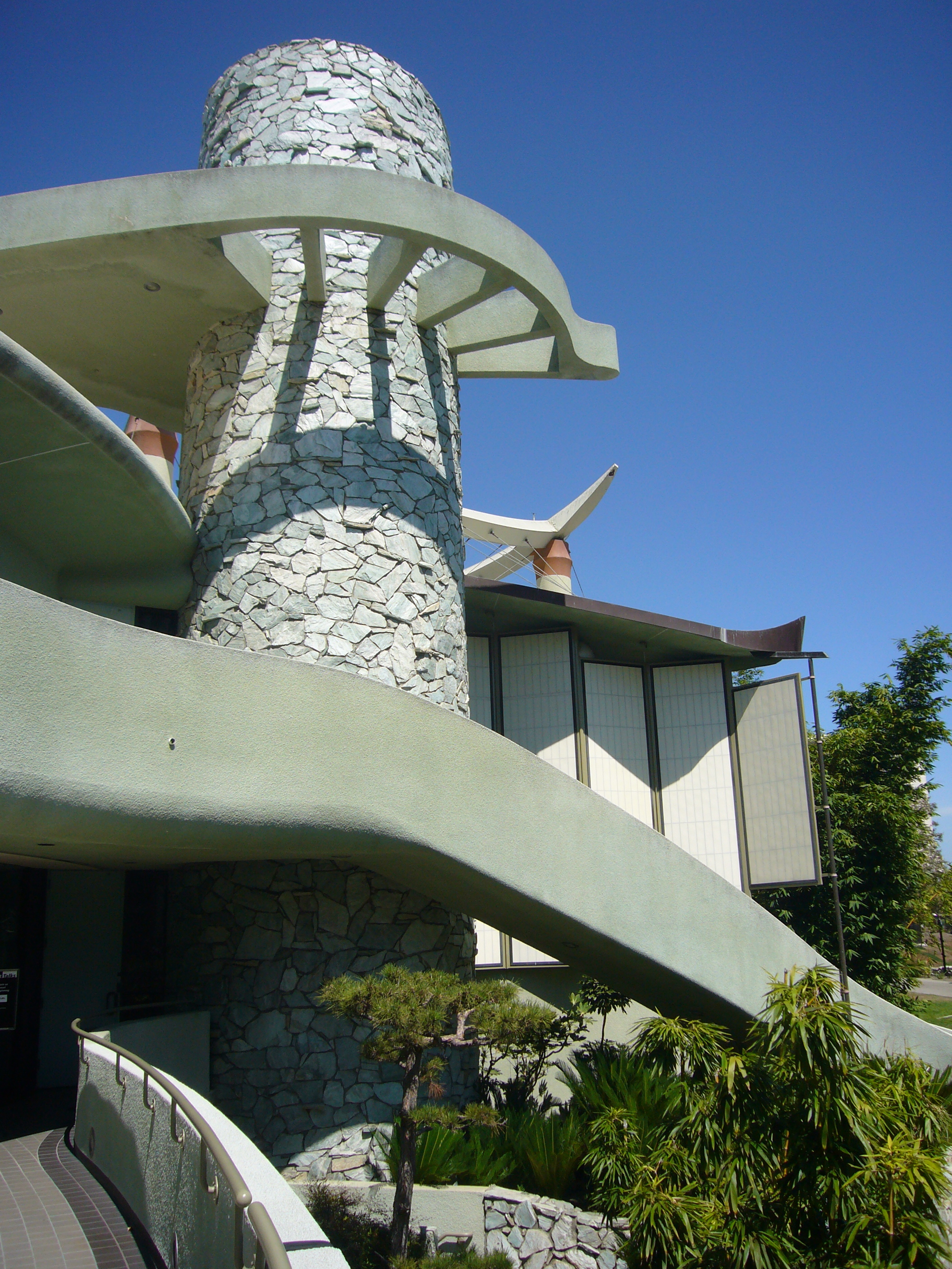 Exterior of the Pavilion for Japanese Art — at the Los Angeles County Museum of Art (LACMA), Los Angeles, California. Designed by Expressionist architect Bruce Goff 1978-1982, with construction completed in 1988.